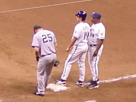 Jason Giambi (left) of the New York Yankees holds Dave Krynzel of the Milwaukee Brewers on first base during a game at Miller Park in Milwaukee in 2005. Dave Nelson is the first base coach.